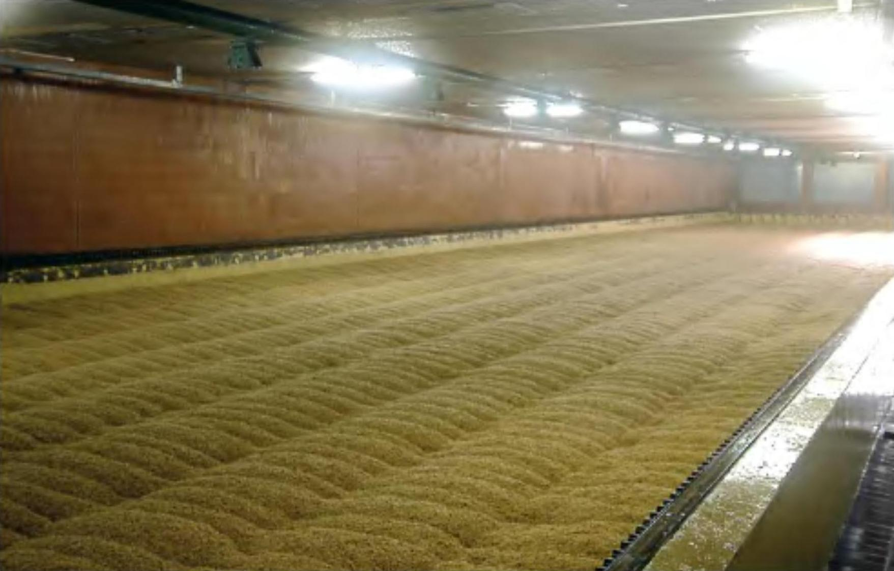 Barley grains sprouter (45 x 9 x 1,3 m) at Malteria La Moravia de Cerveses Damm (Bell-lloc d'Urgell, Pla d'Urgell).